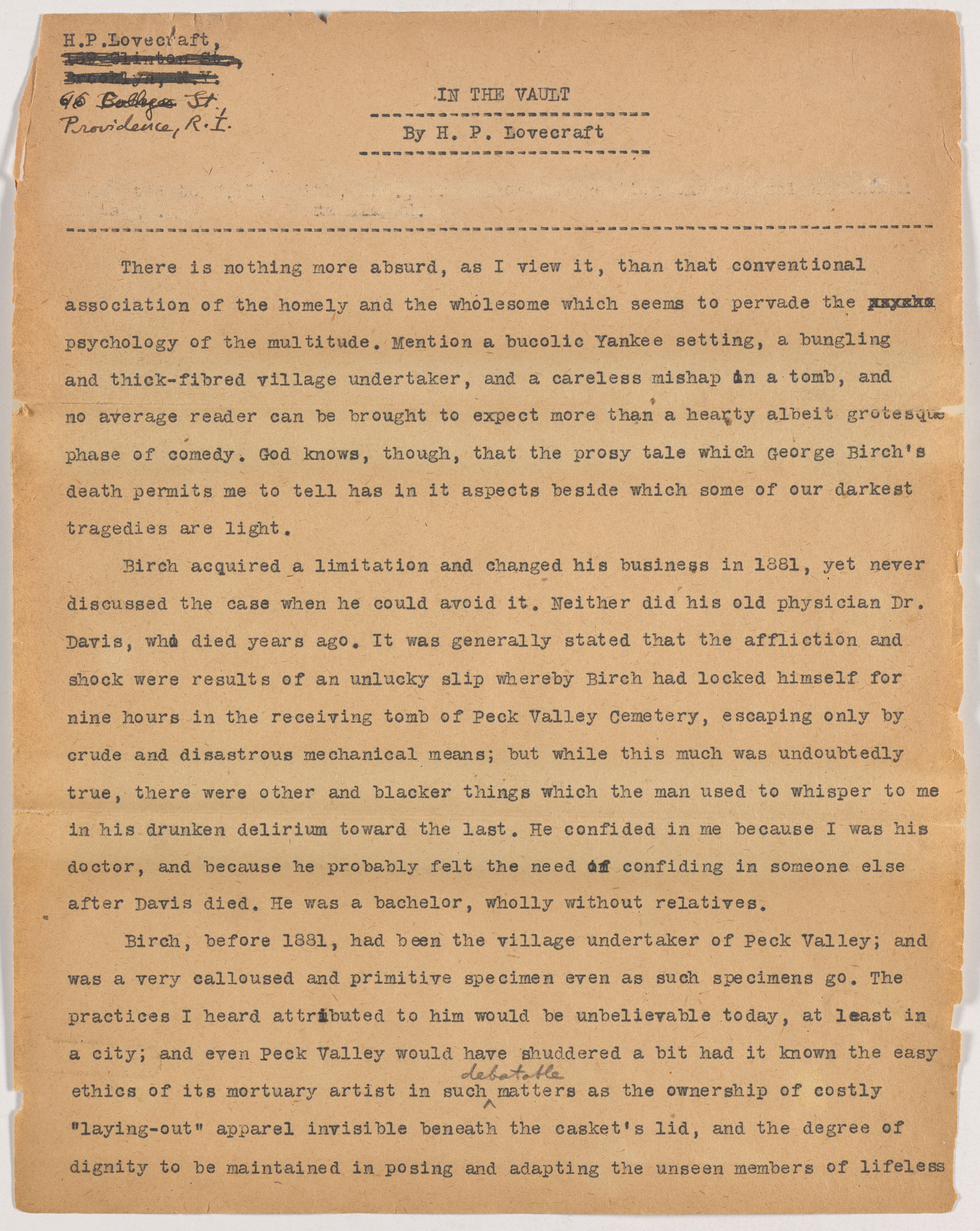 First page of the manuscript In the Vault.